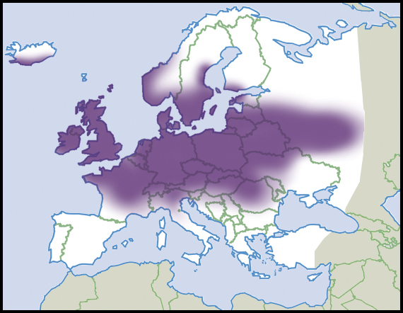 Vitrea crystallina (Müller, 1774). Distribution in Europe, scientific state of knowledge of 2012. Source description in English. Light colour indicated rare occurrences or regions where the species could eventually be expected to occur. Dark colour indicated relatively reliable occurrences, as well as regions where the species was expected to occur, and where the species was not known to be extremely rare. Dark colour indications were not necessarily based on published records. Species summary in AnimalBase